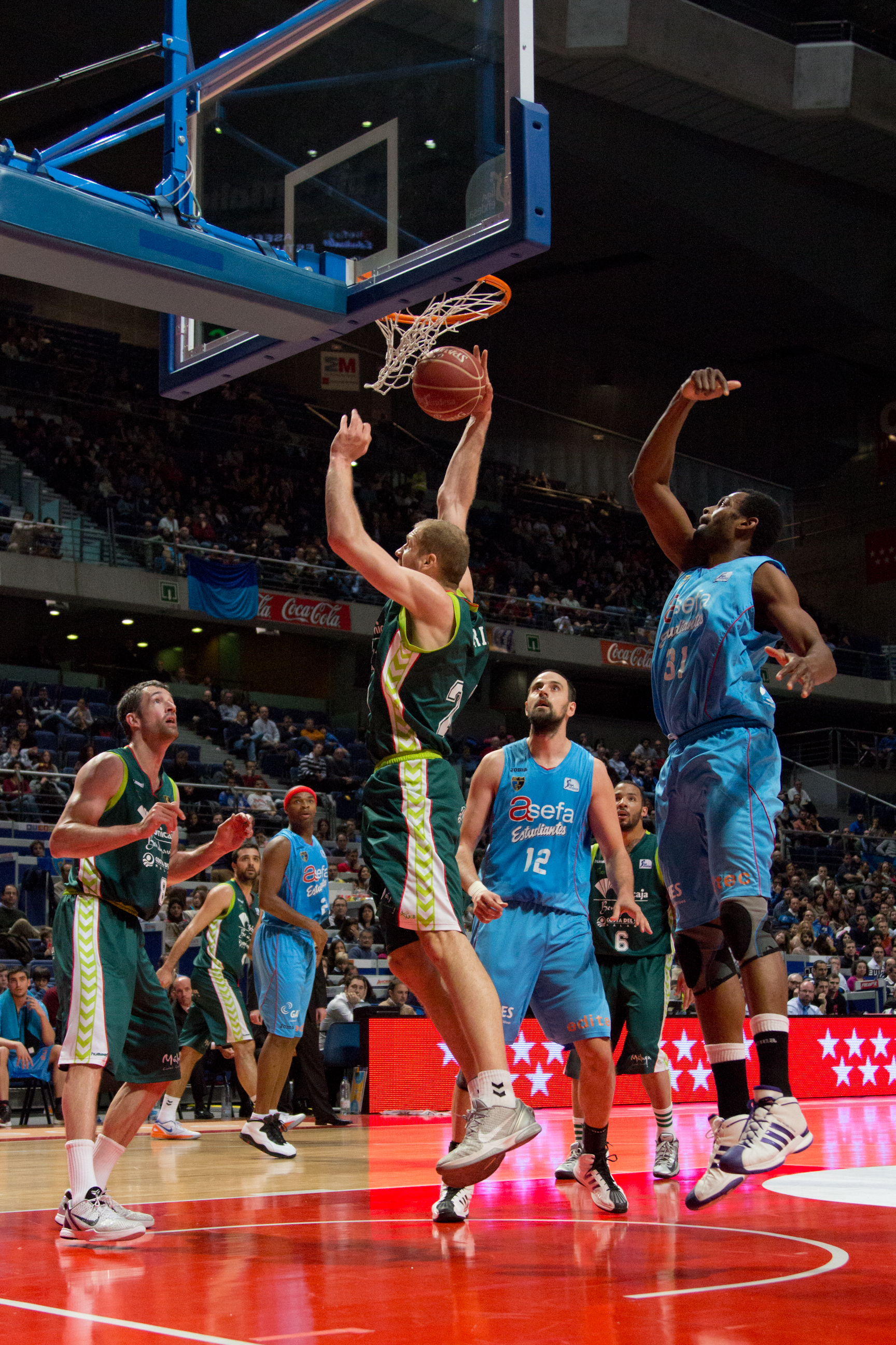 Game Estudiantes vs Unicaja Málaga.